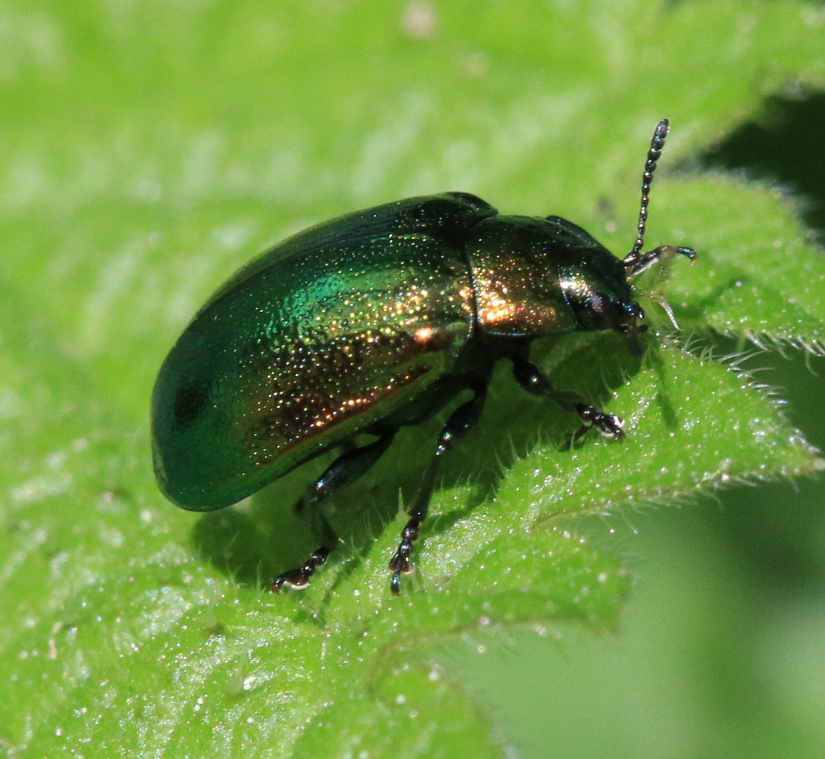 Crichton Collegiate Church, Midlothian, Scotland NT380616 Formerly Chrysomela aenea & Linneidea aenea Thanks to thaptor (Boris) for the id.